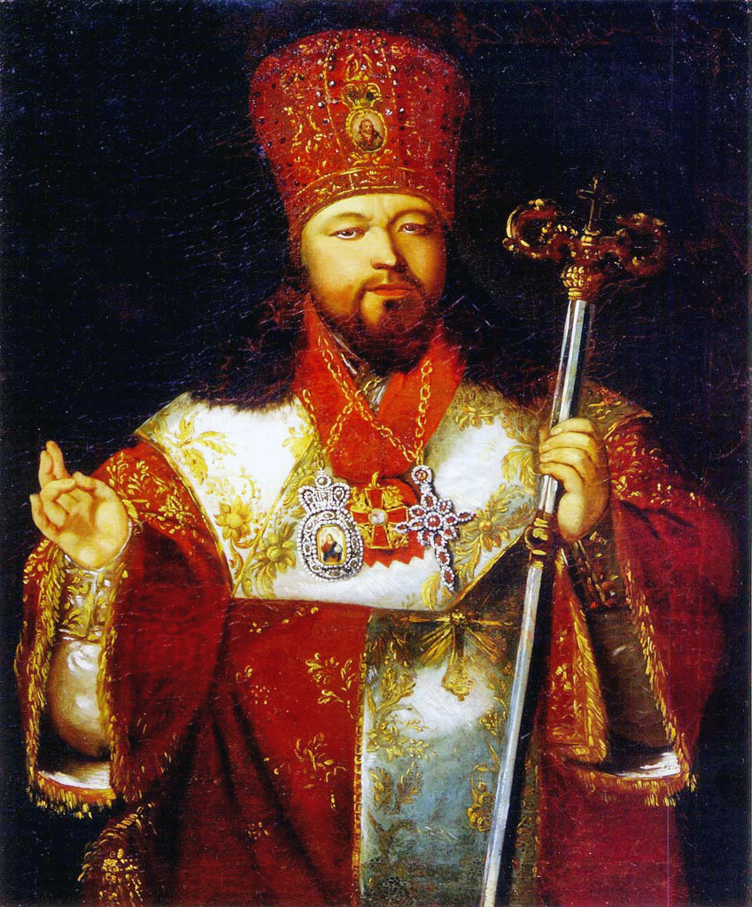 Портрет Августина (Виноградского), архиепископа Московского и Коломенского.